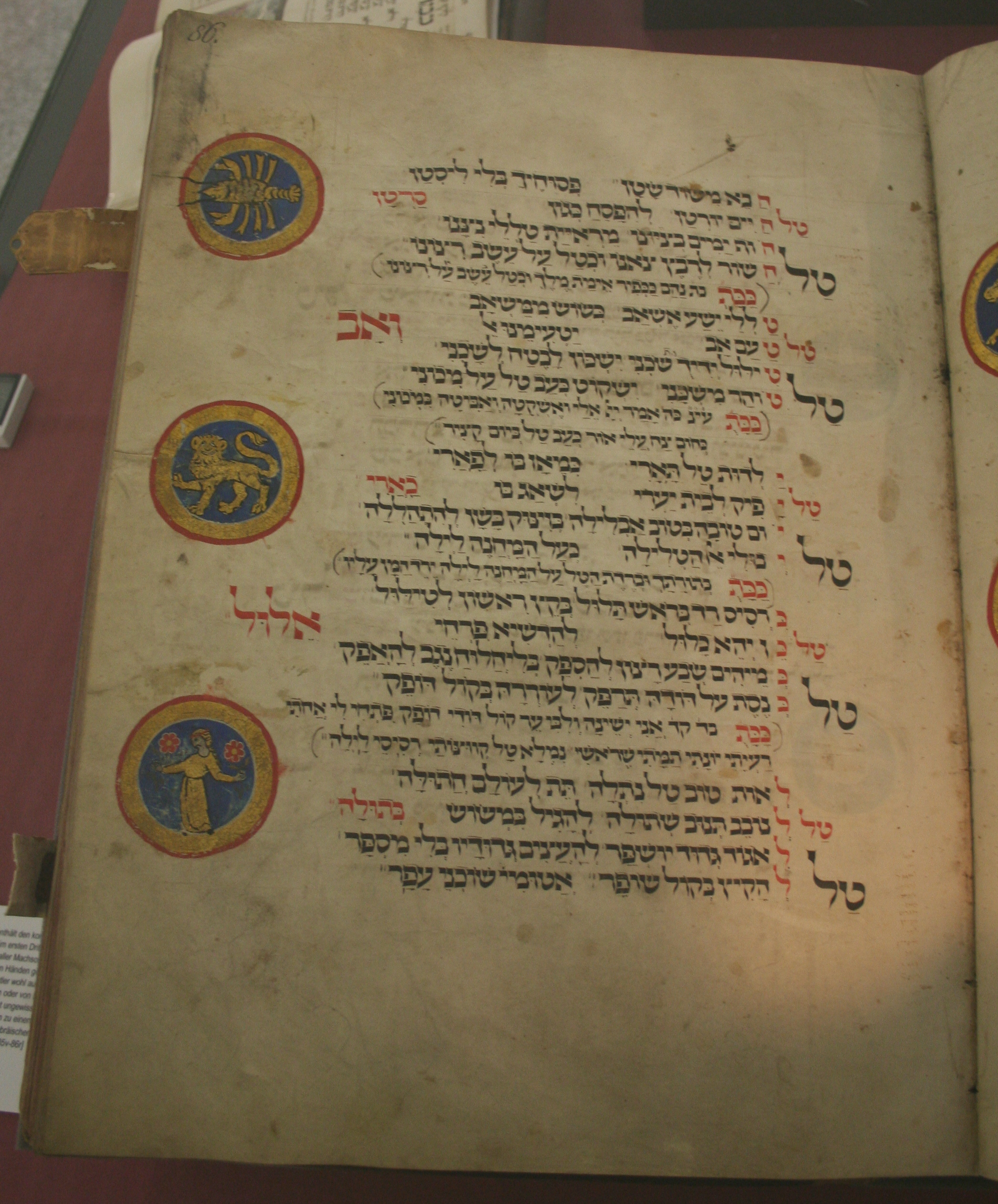 A page from the Machsor Lipsiae